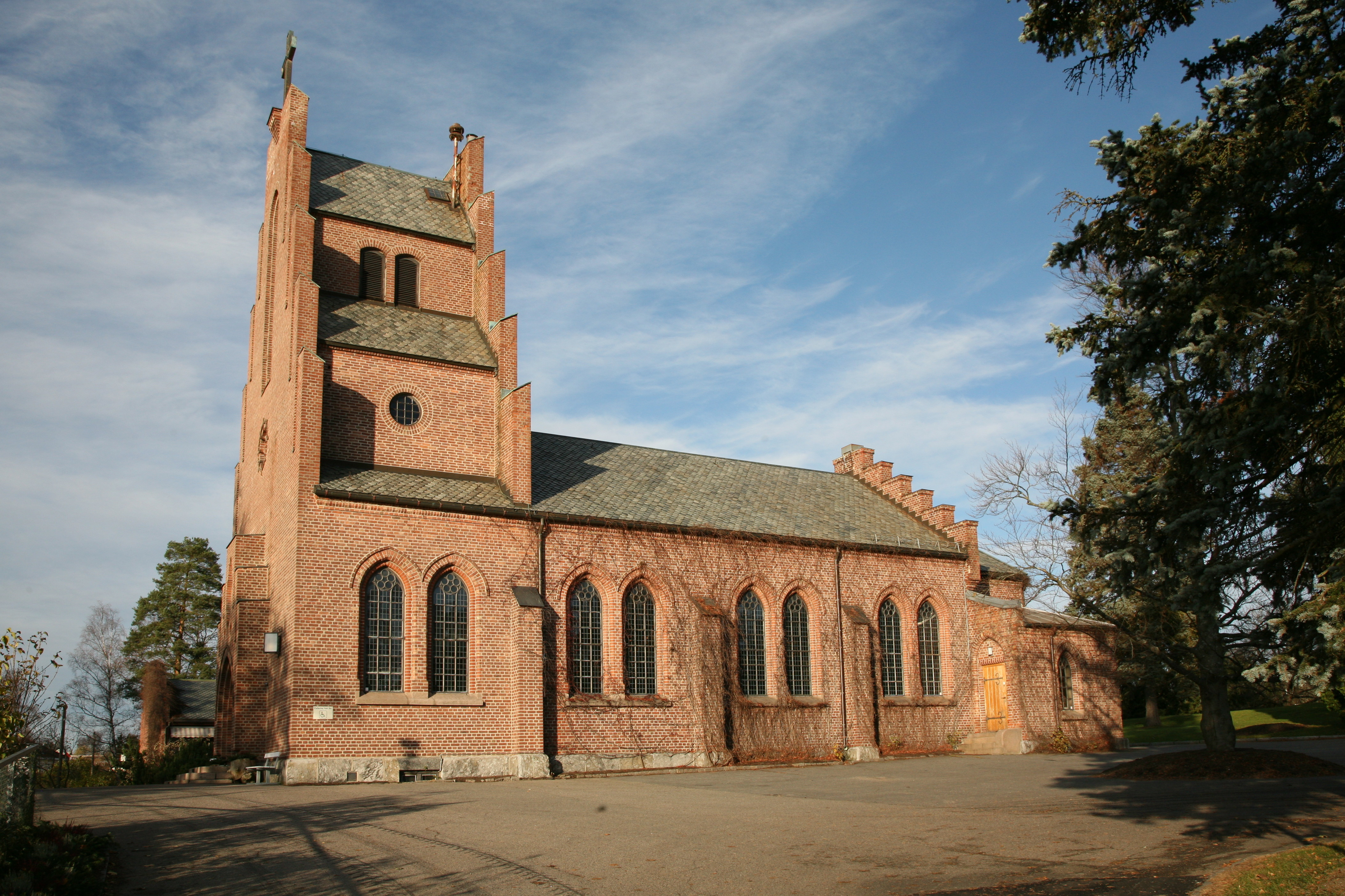 Nordstrand kirke, a church in Oslo